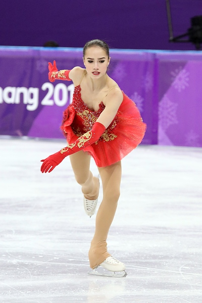 Alina Zagitova at the 2018 Winter Olympic Games - Free program